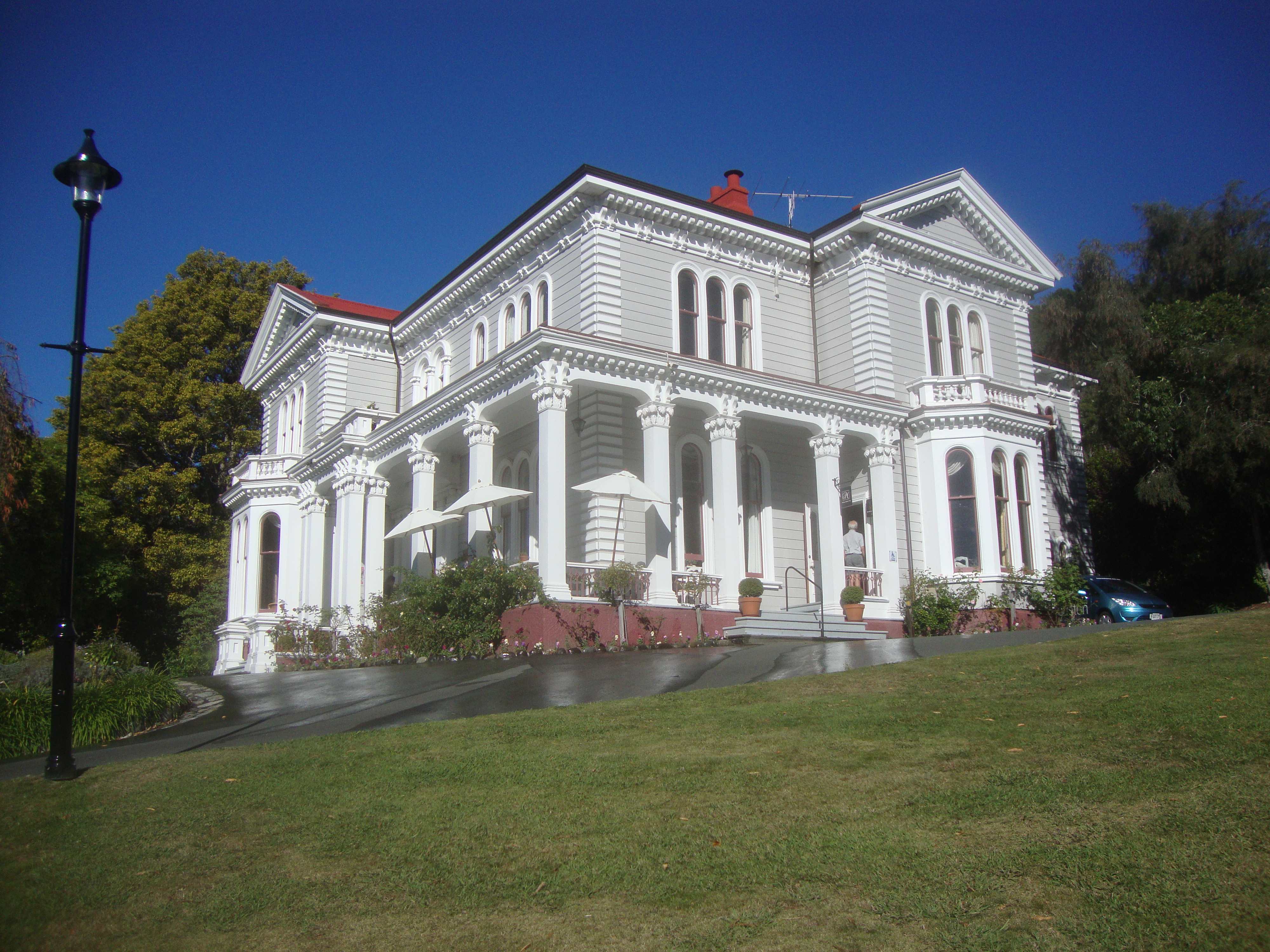 Melrose House, Nelson, in April 2012.